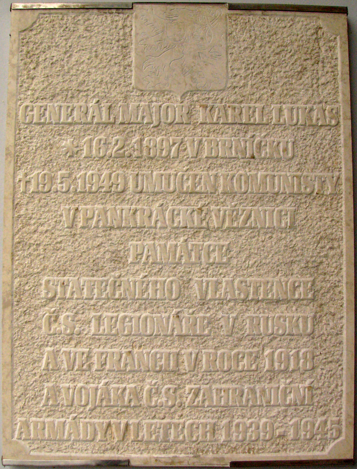 Memorial plaque of Karel Lukas in Zábřeh (Czech Republic).